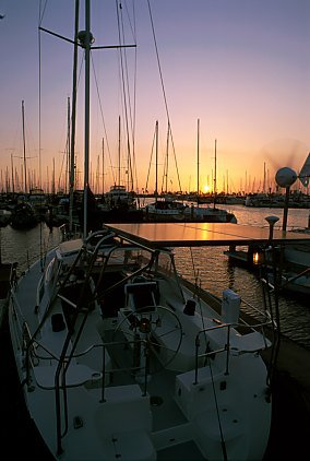 Wind turbine and solar panels onboard XV/1 at sunset